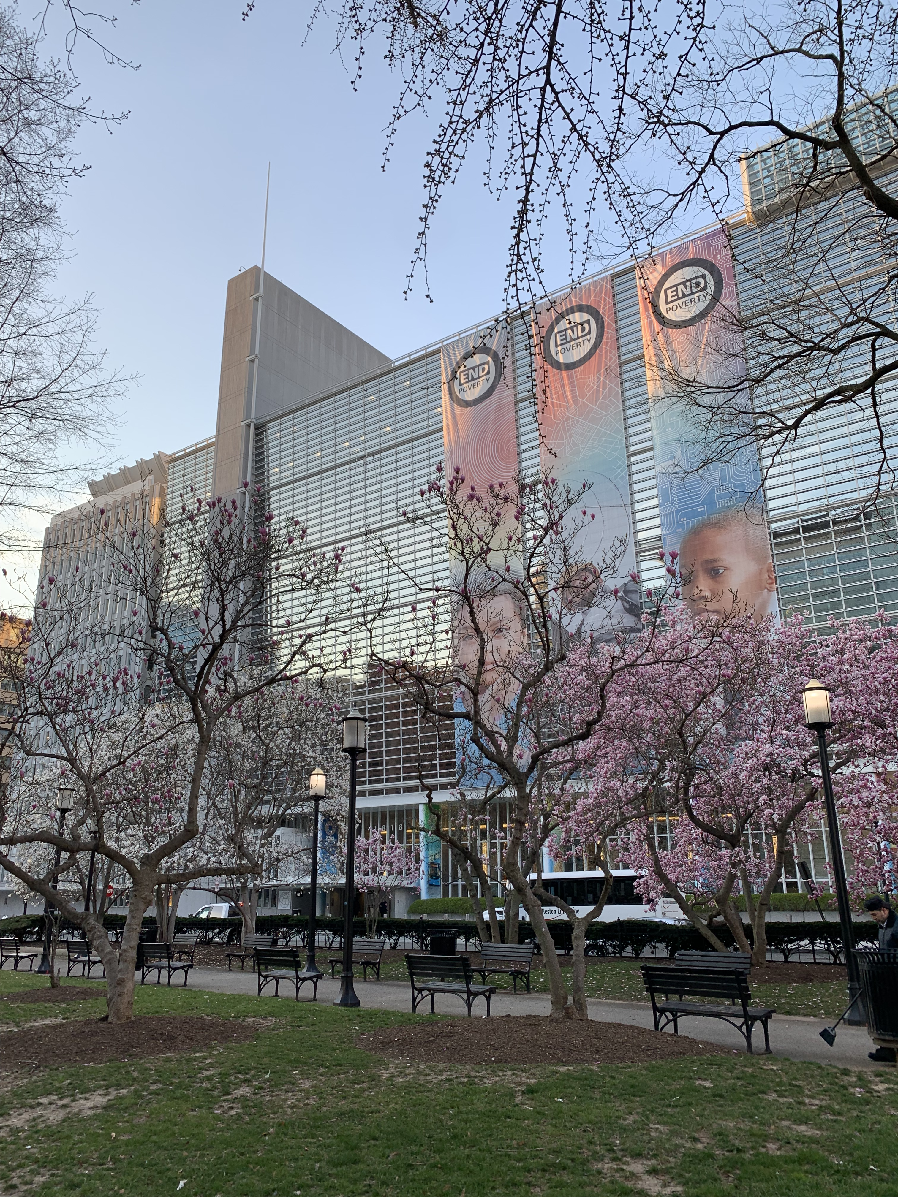 World Bank Group headquarters in Washington DC during the 2019 End Poverty campaign.